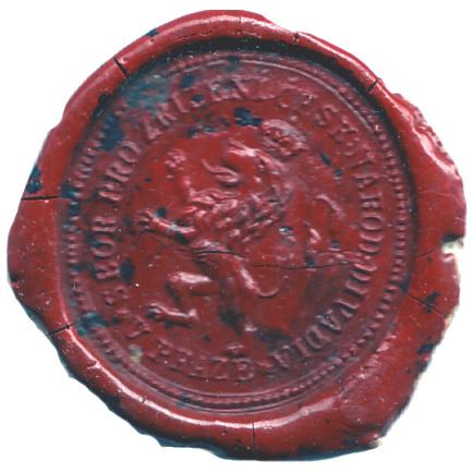 Society for the Establishment of the National Theatre in Prague 1851